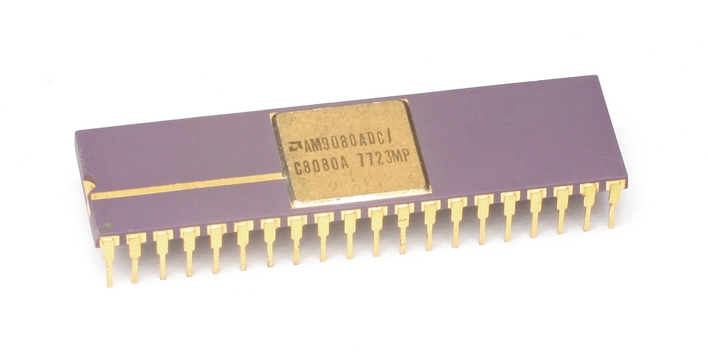 CPU AMD AM9080 (= Intel i8080)